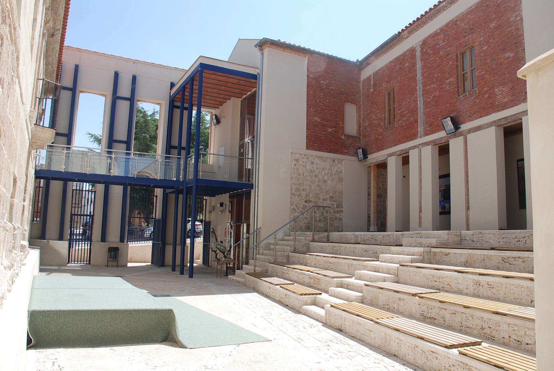 Museum of El Cerrato in Baltanás (Palencia, Castile and León).